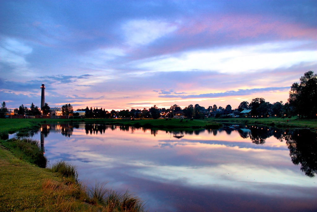 HDR with Corel Paint Shop Pro Photo